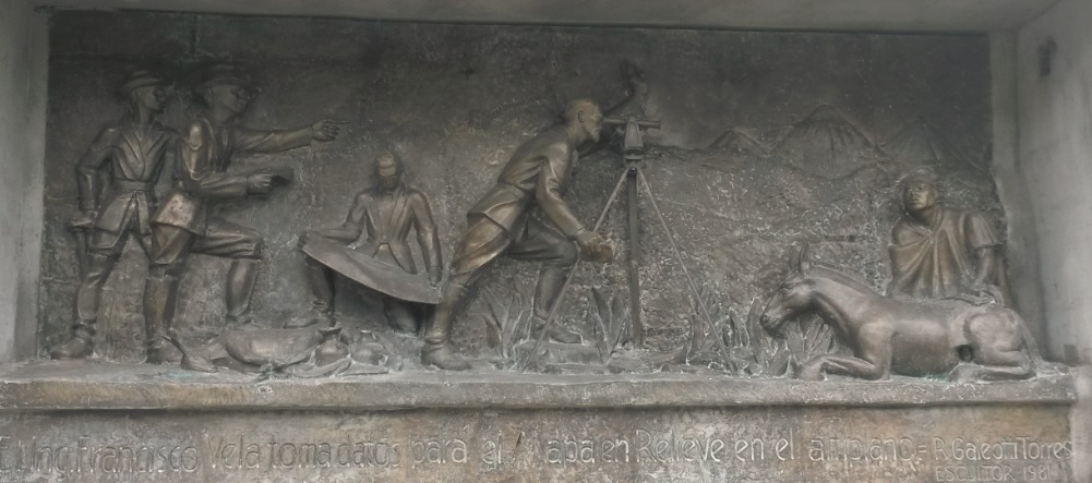 Monumento a Francisco Vela.